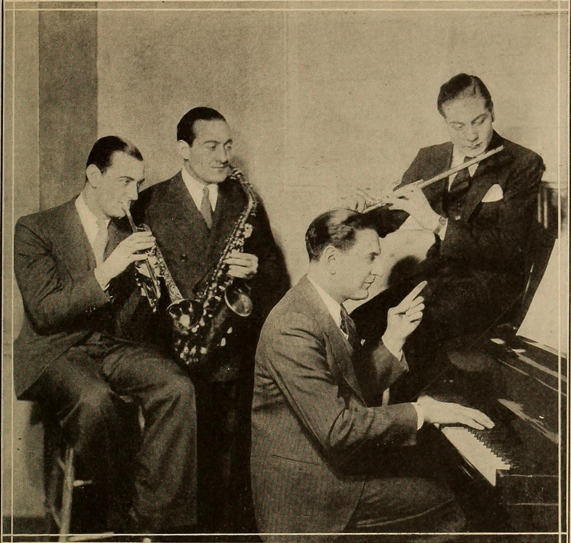 The Lombardo brothers circa 1930-1931: left to right: Lebert, Carmen, Guy, and Victor